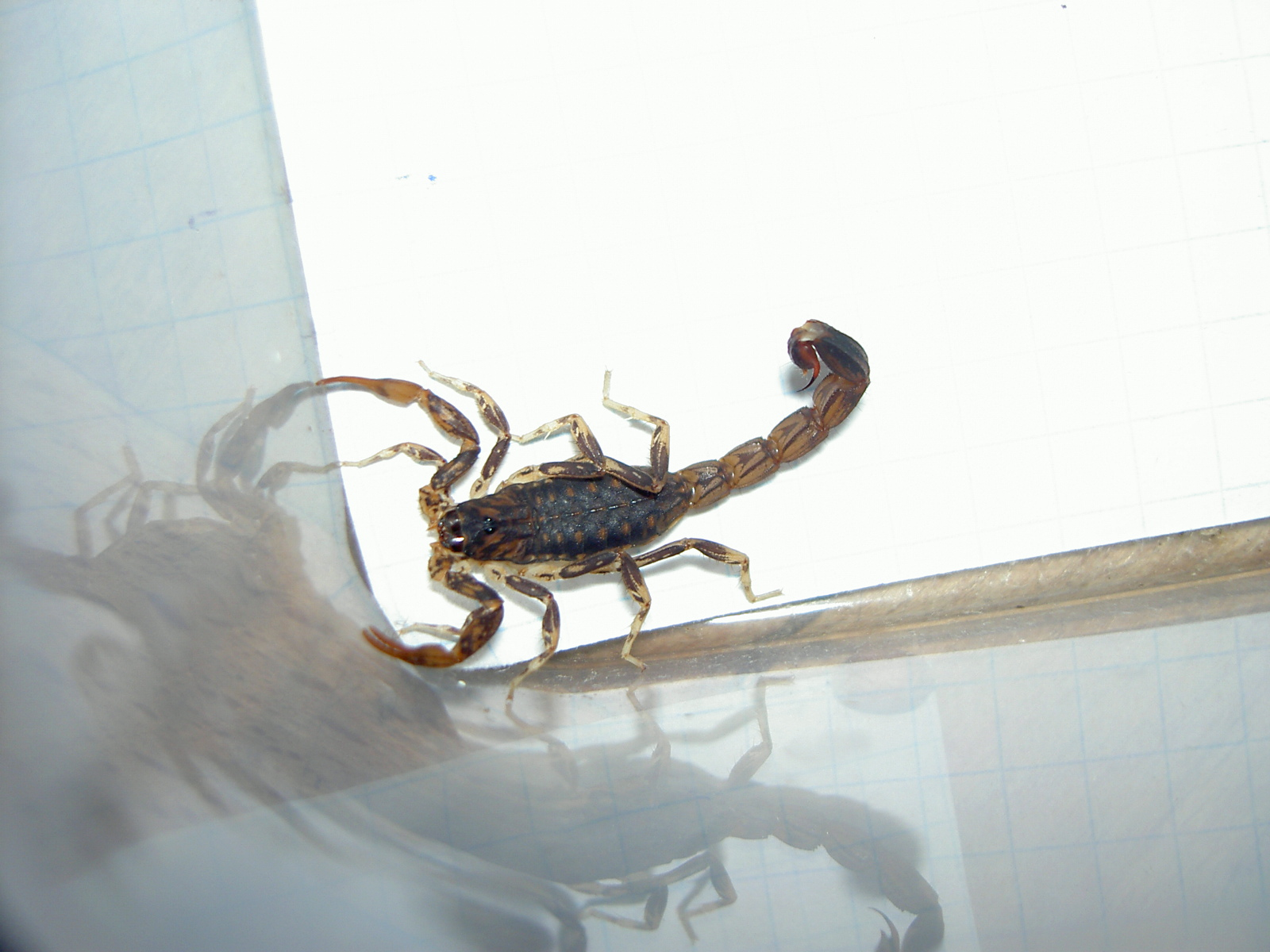 Lychas tricarinatus